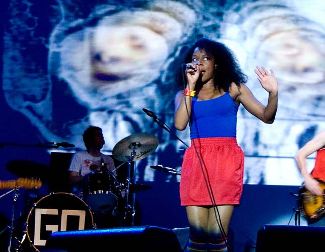 Ninja and Go Team! appear at the the Festival Musica de Ibirapuera in Sao Paulo, Brazil on June 28, 2008.